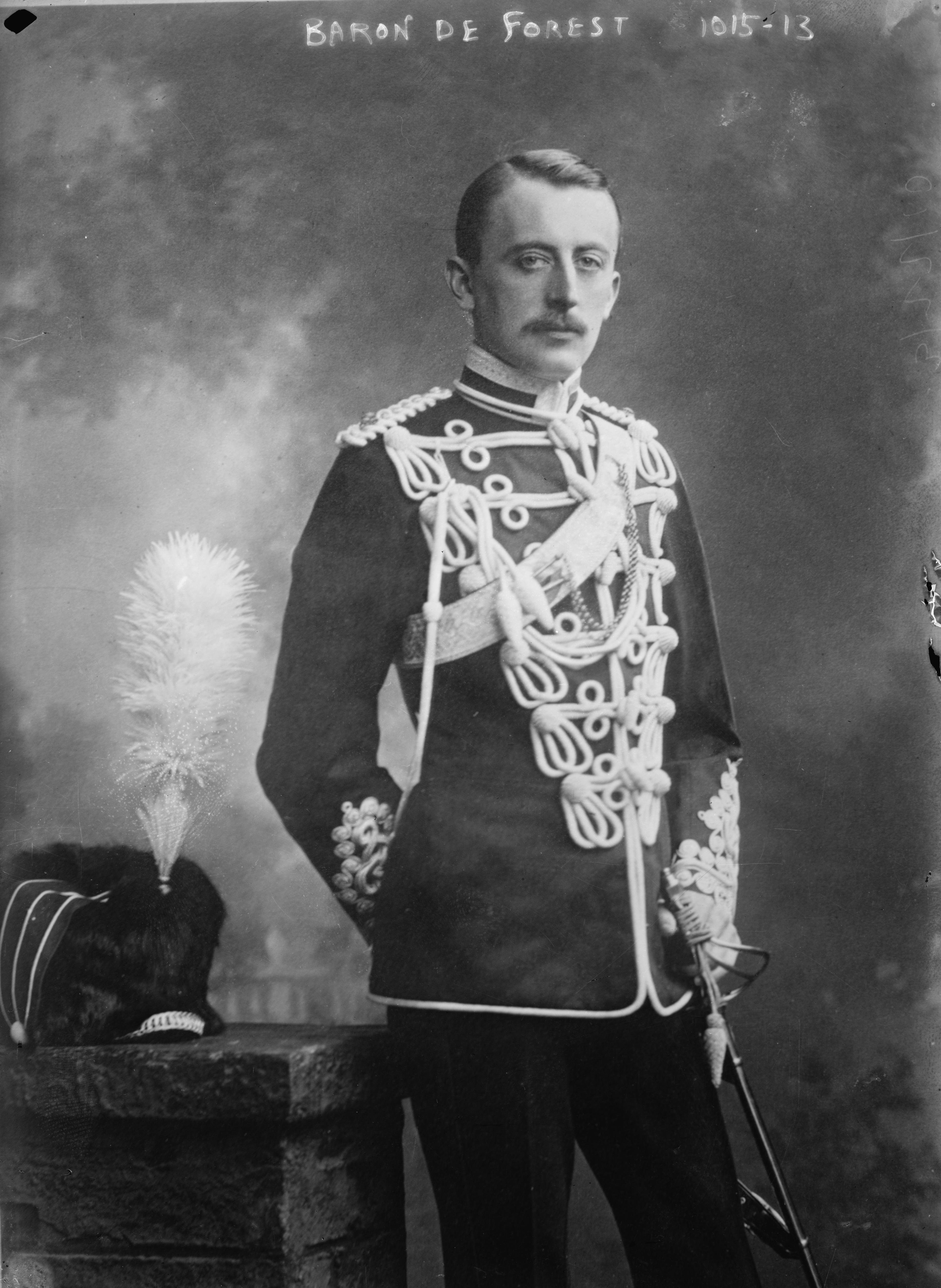 Baron Maurice Arnold de Forest standing